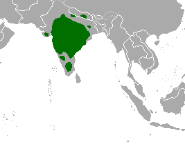 Range map of Tetracerus quadricornis Source=Base map derived from File:BlankMap-World.png. Data from: Leslie, D., M., Jr., Sharma, K. (2009). Tetracerus quadricornis (Artiodactyla: Bovidae). Mammalian Species 843: 1-11.